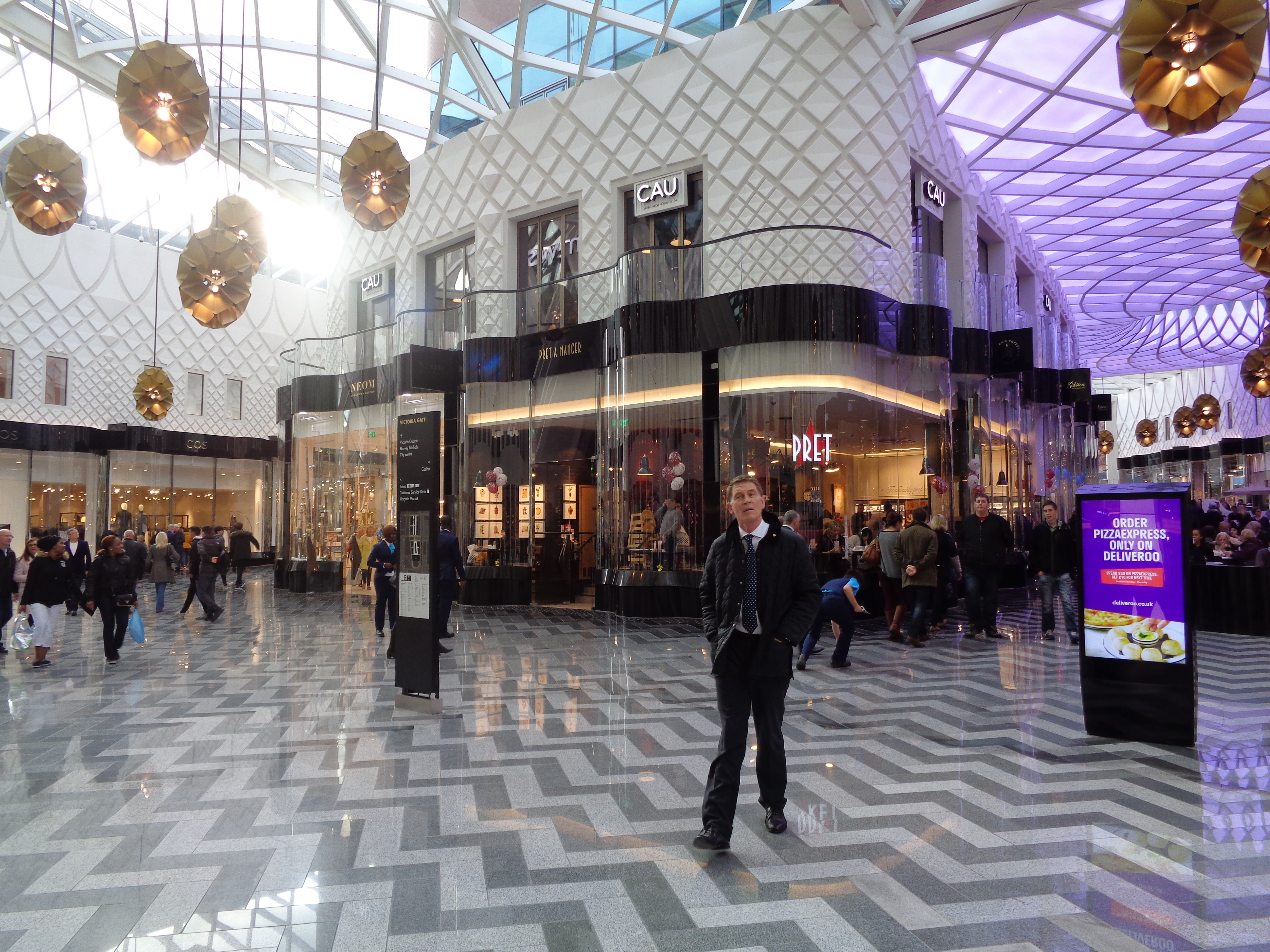 Opening day, Victoria Gate, Leeds, West Yorkshire. Taken on the afternoon of Thursday the 20th of October 2016.